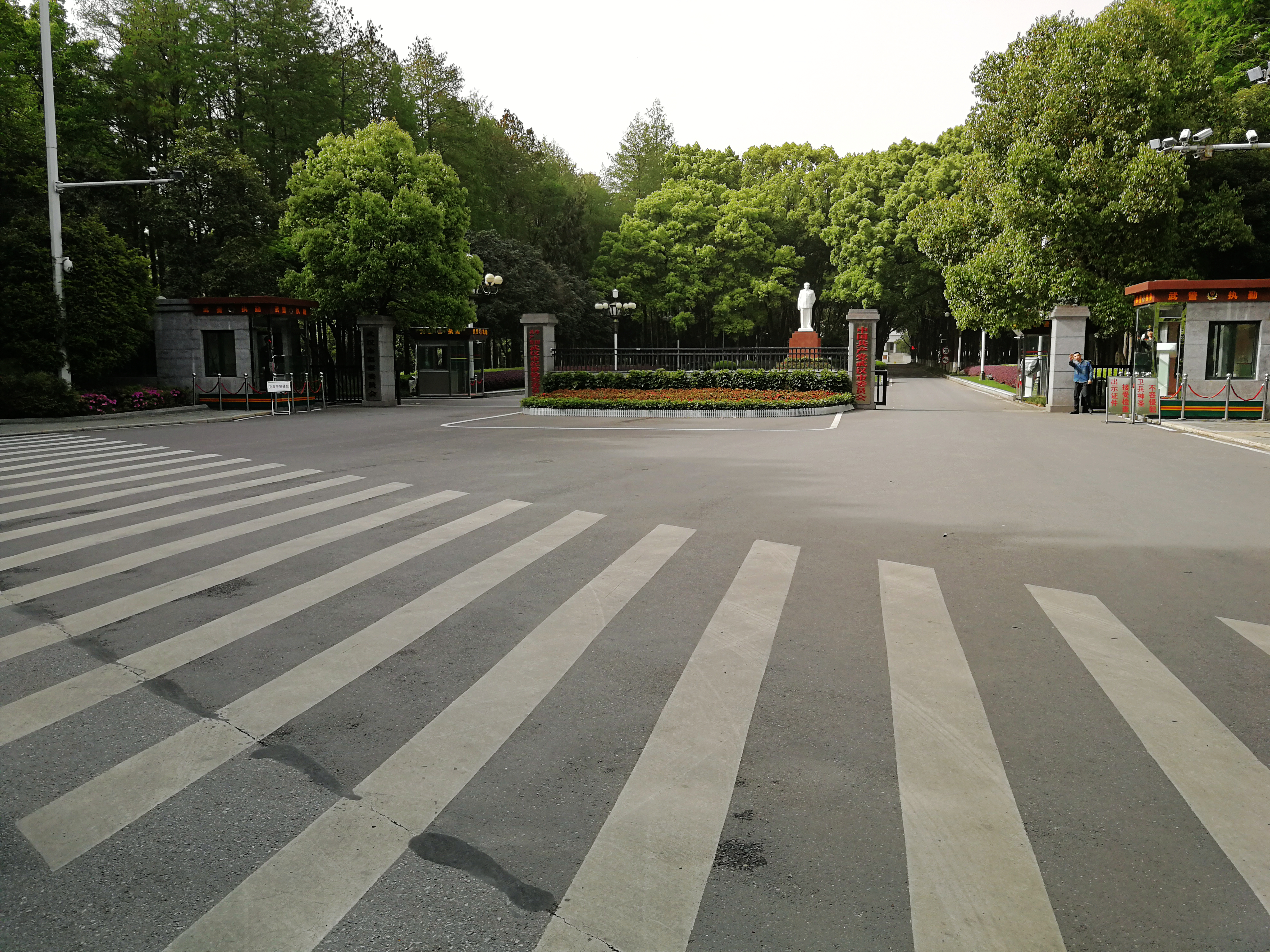 The main gate of Wuhan Municipal Party Committee